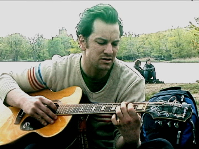 Todd P performing at the 2005 SPRINGTIME UNAMPLIFIED ACOUSTIC BAR-B-QUE 9 May 2005